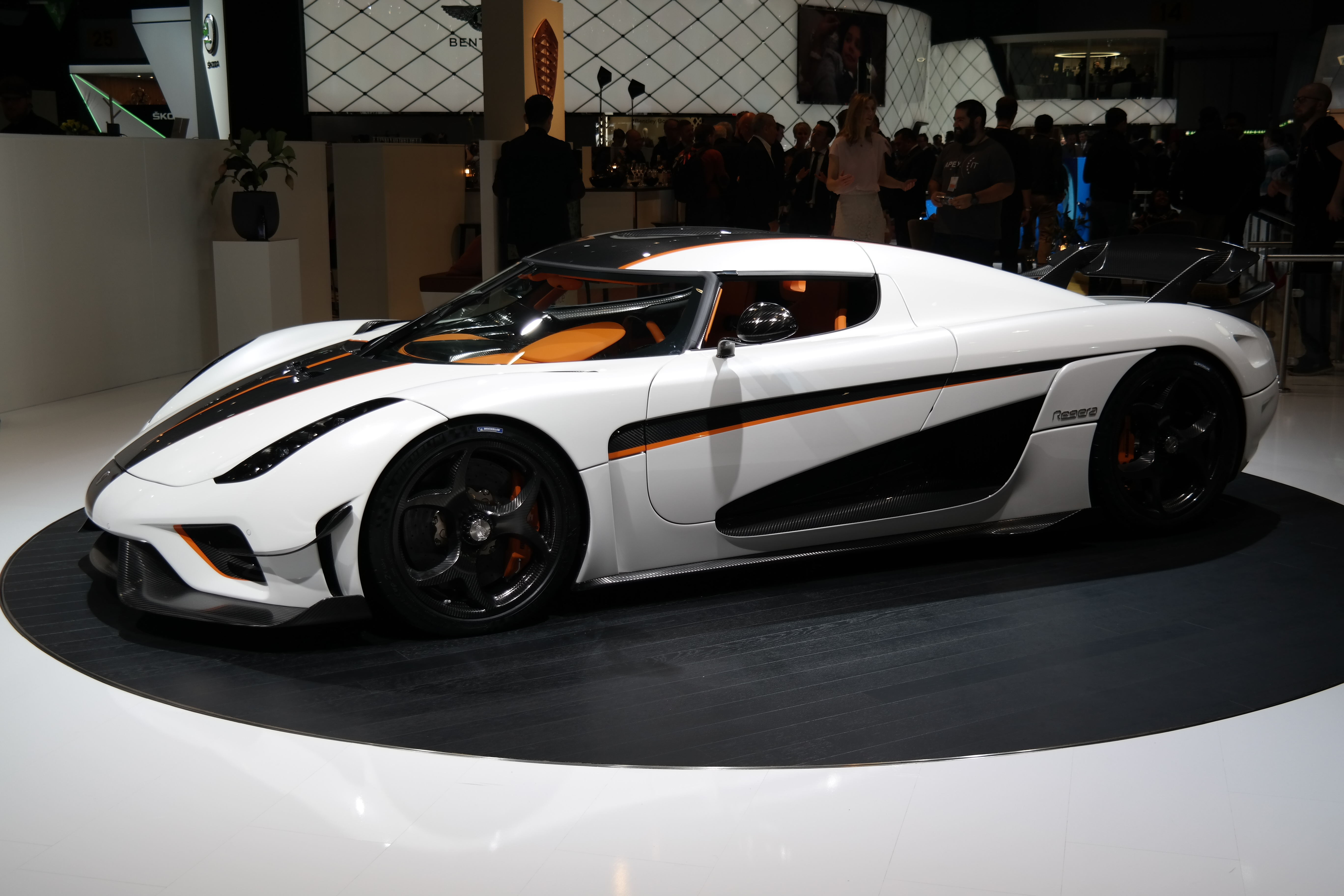 Geneva Motor Show 2018 (photo taken on the first press day)